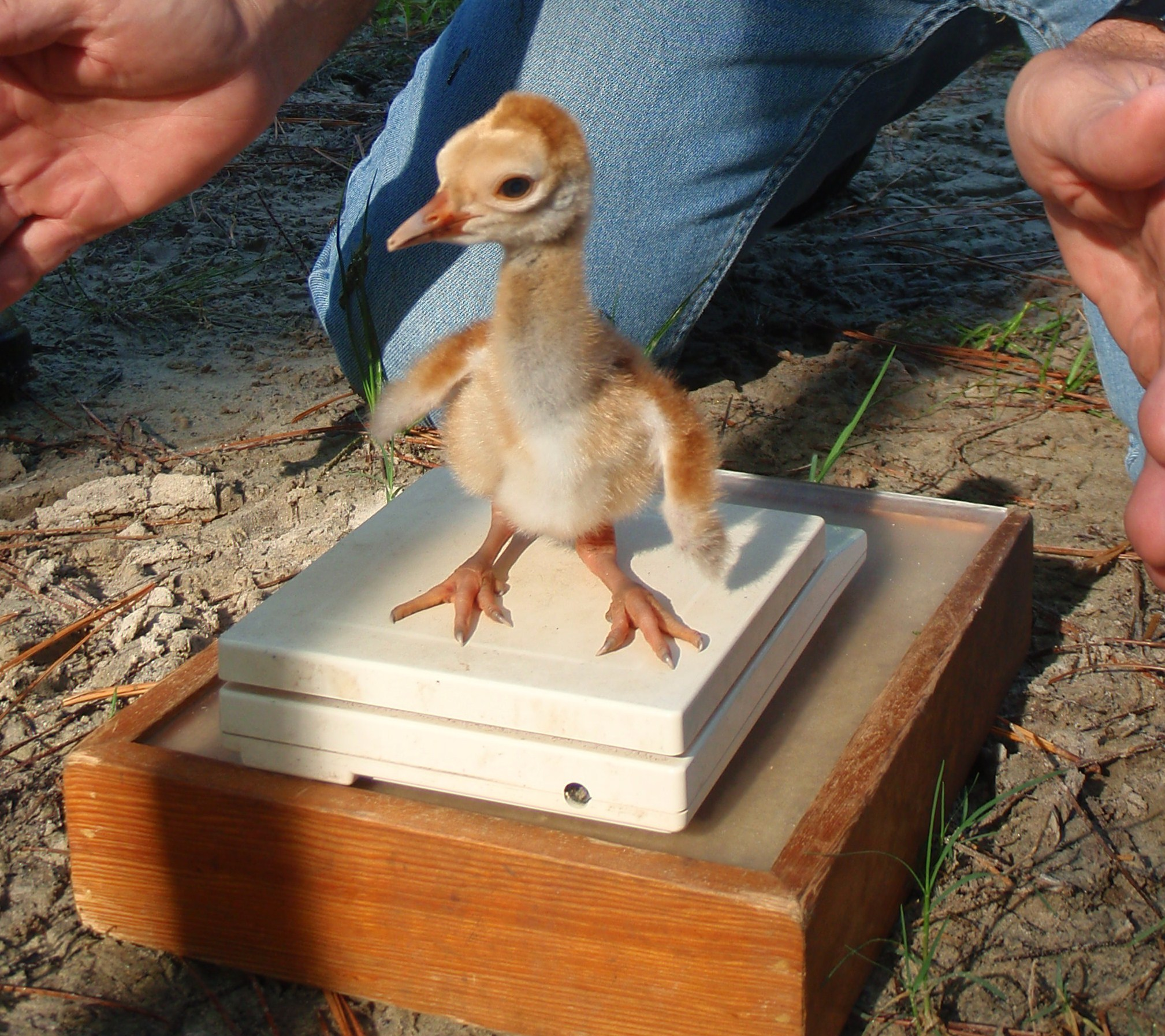 A Mississippi sandhill crane chick is weighed at White Oak.